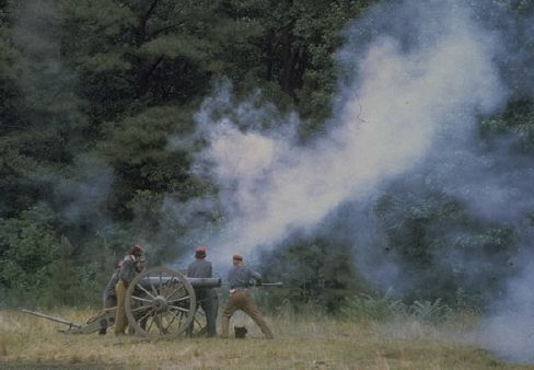 American Civil War re-enactors at Petersburg National Battlefield. 37°13′10″N 77°21′41″W / 37.21944°N 77.36139°W Image cropt from original.